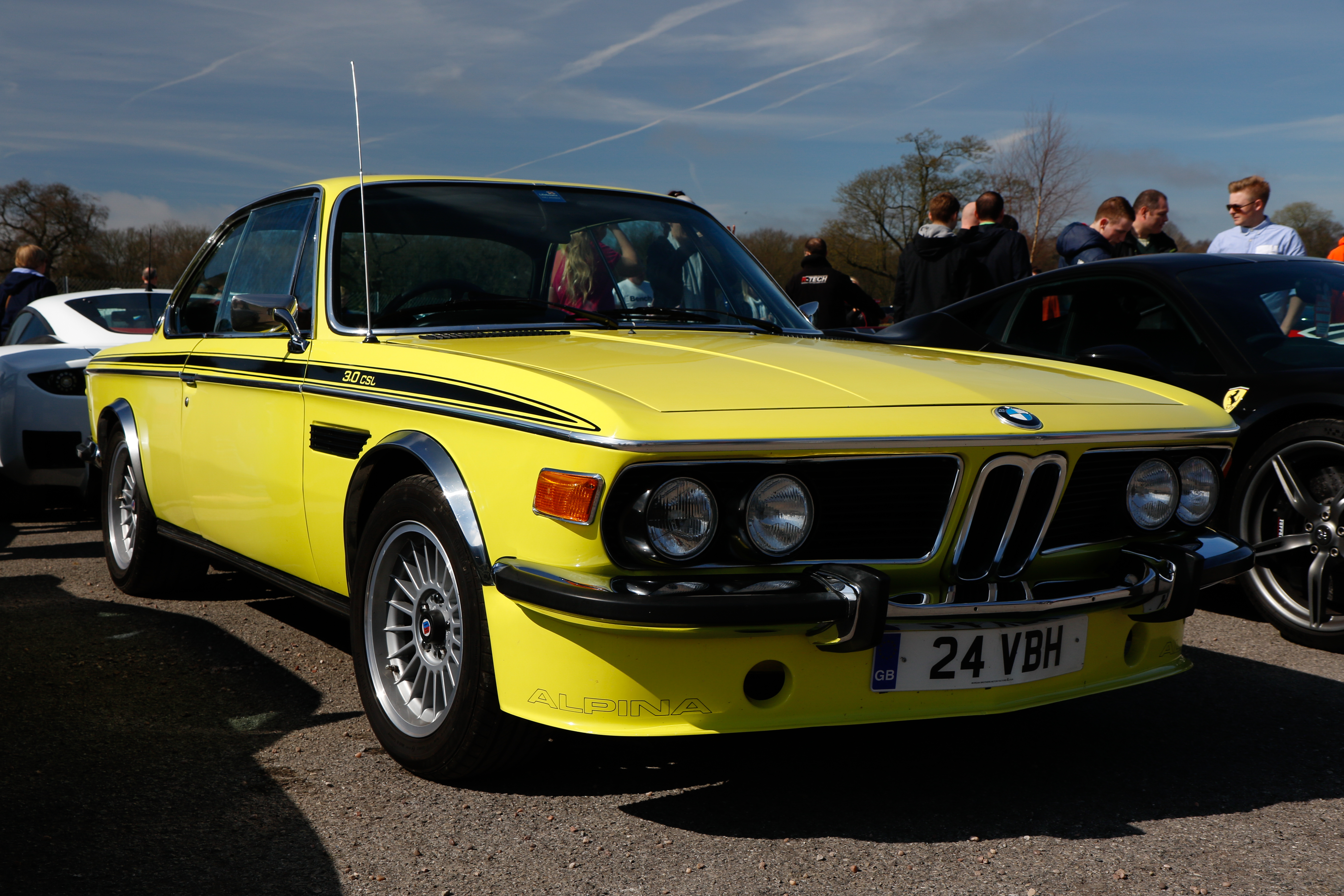 BMW 3.0 CSL (front)